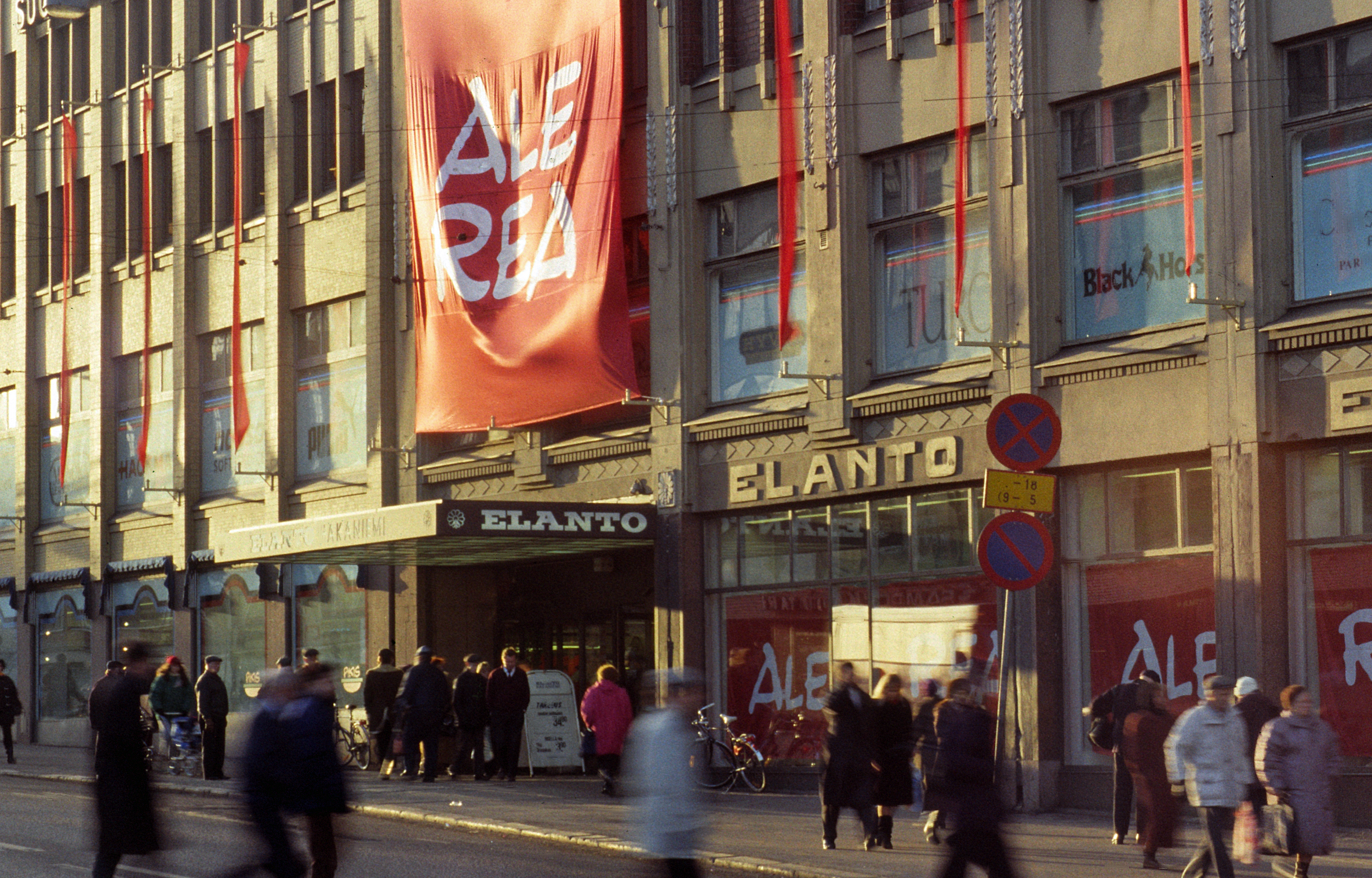 Sale banners covering Elanto department store on Hakaniemi Square, Helsinki, Finland, in 1993.